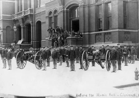 Ohio National Guard troops outside the Music Hall in Cincinnati, Ohio, March 1884. Troops were brought to bring an end to riots sparked by public outrage over the outcome of a murder trial.